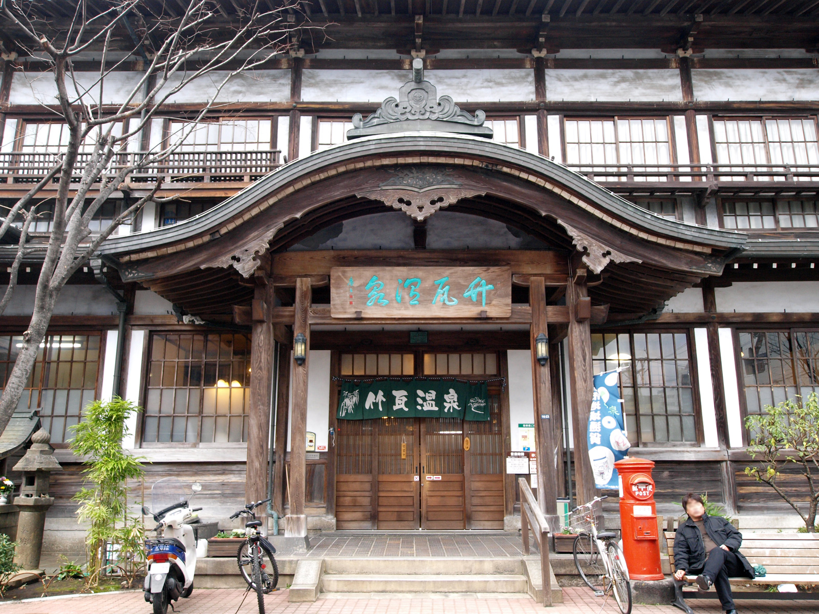 Takwgawara Onsen, Beppu City, Oita Pref., Japan